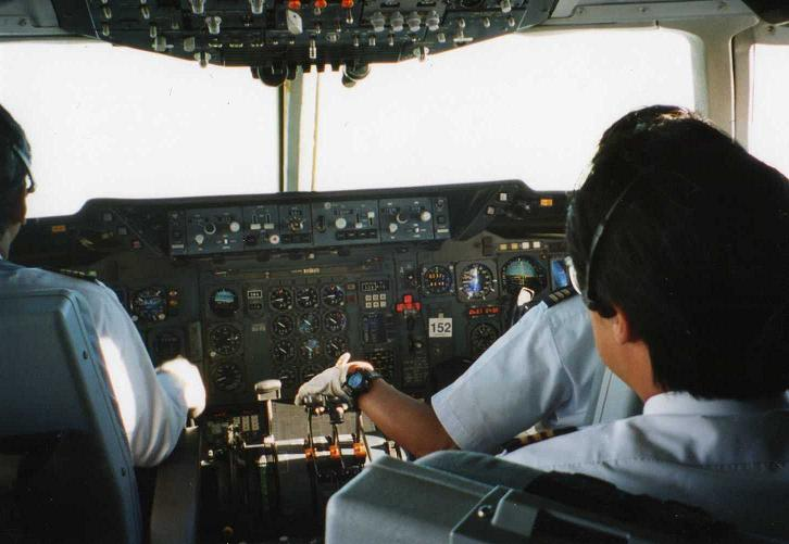 Cockpit of a McDonnell Douglas DC-10-40 aircraft